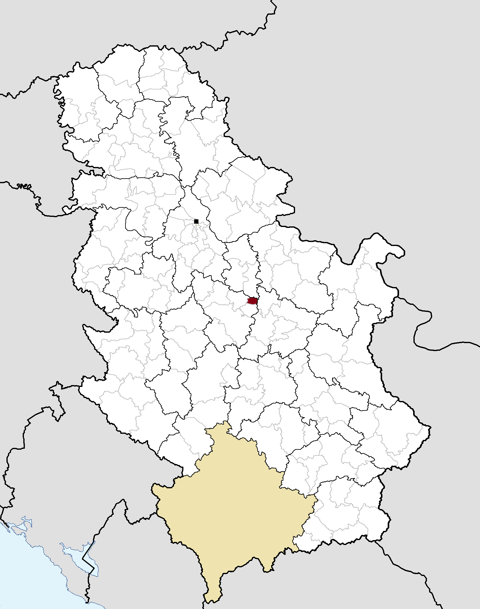 Municipal location in Serbia